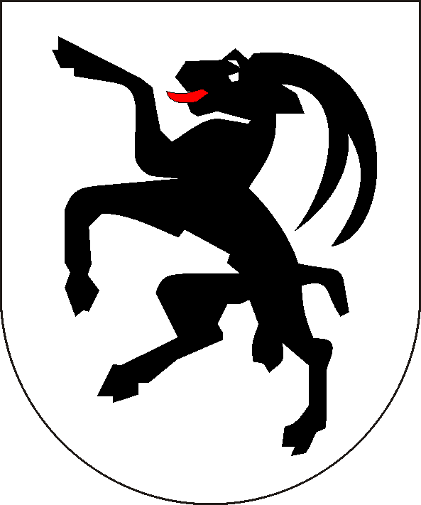 Coat of arms of the bishopric of Chur